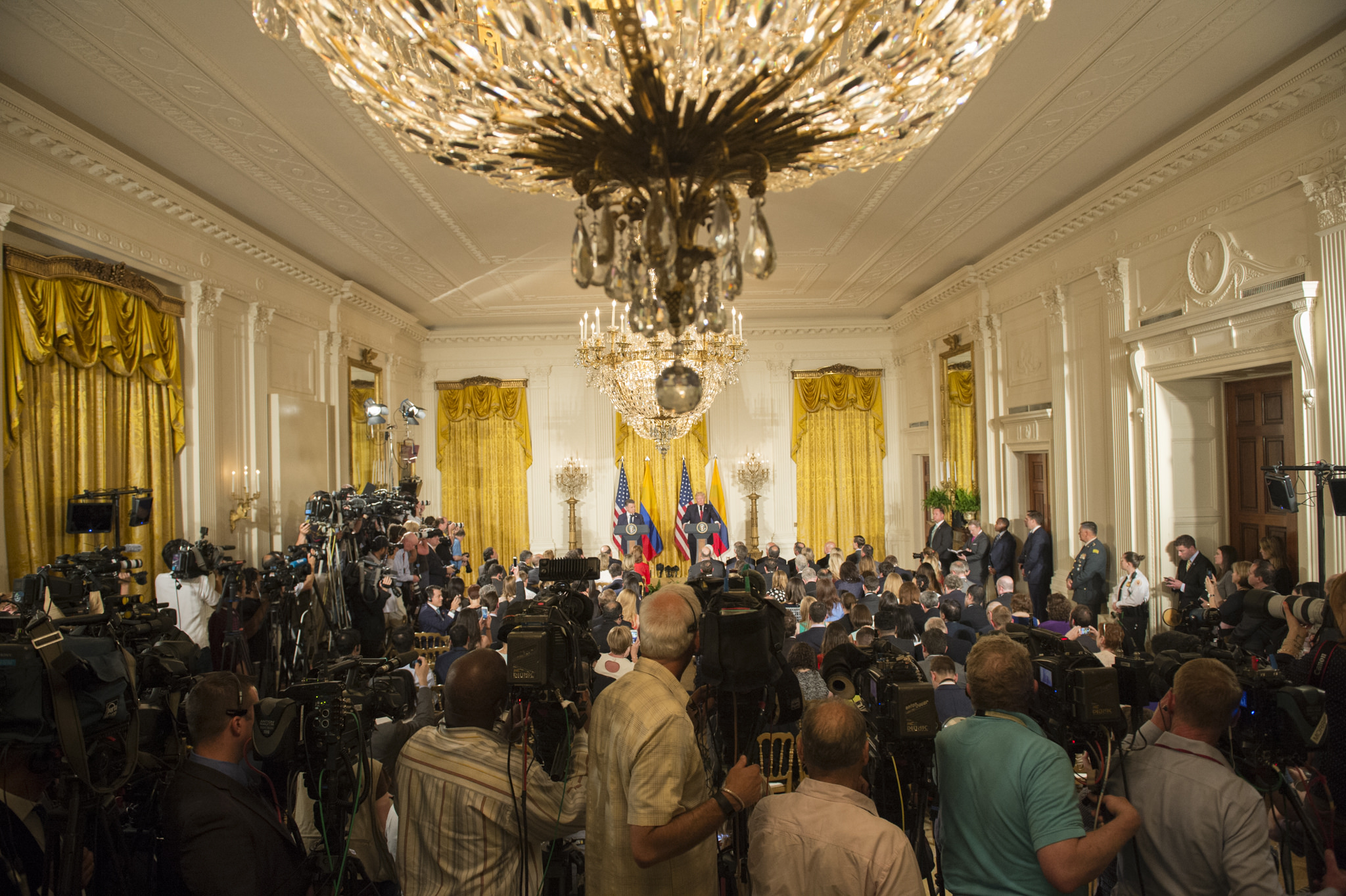 President Donald Trump and Colombian President Juan Manuel Santos participate in a joint press conference in the East Room of the White House, Thursday, May 18, 2017, in Washington, D.C.